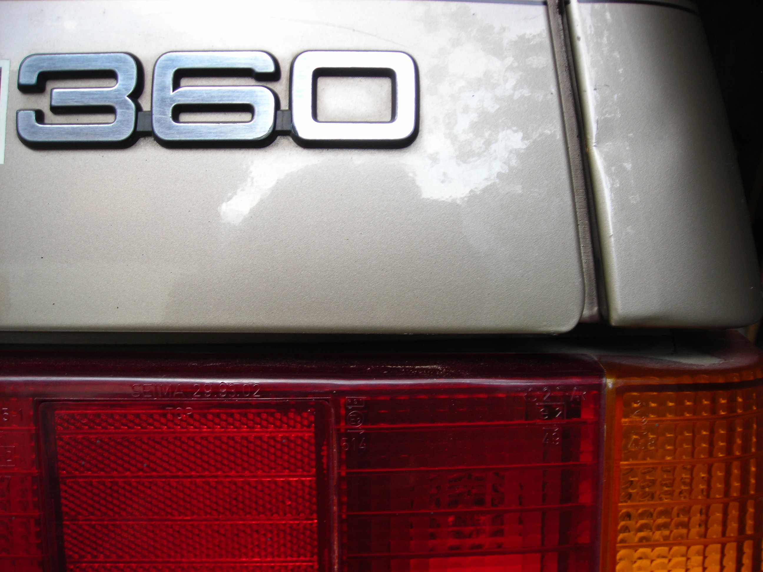 1985 Volvo 360 emblem detail